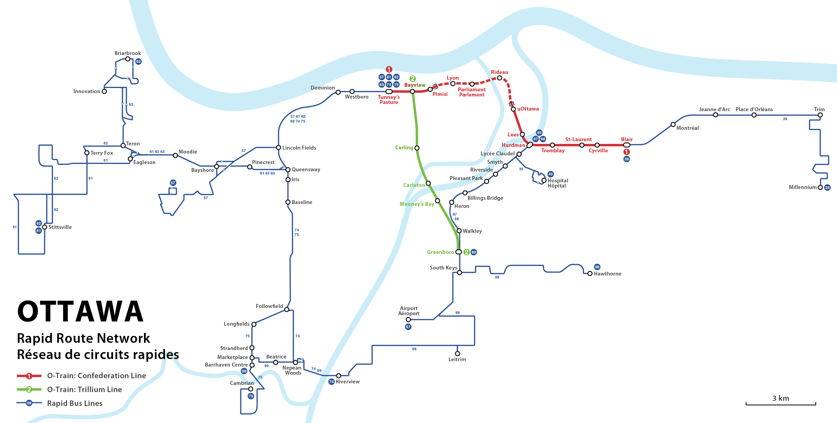 Map of the Rapid Transit network of Ottawa